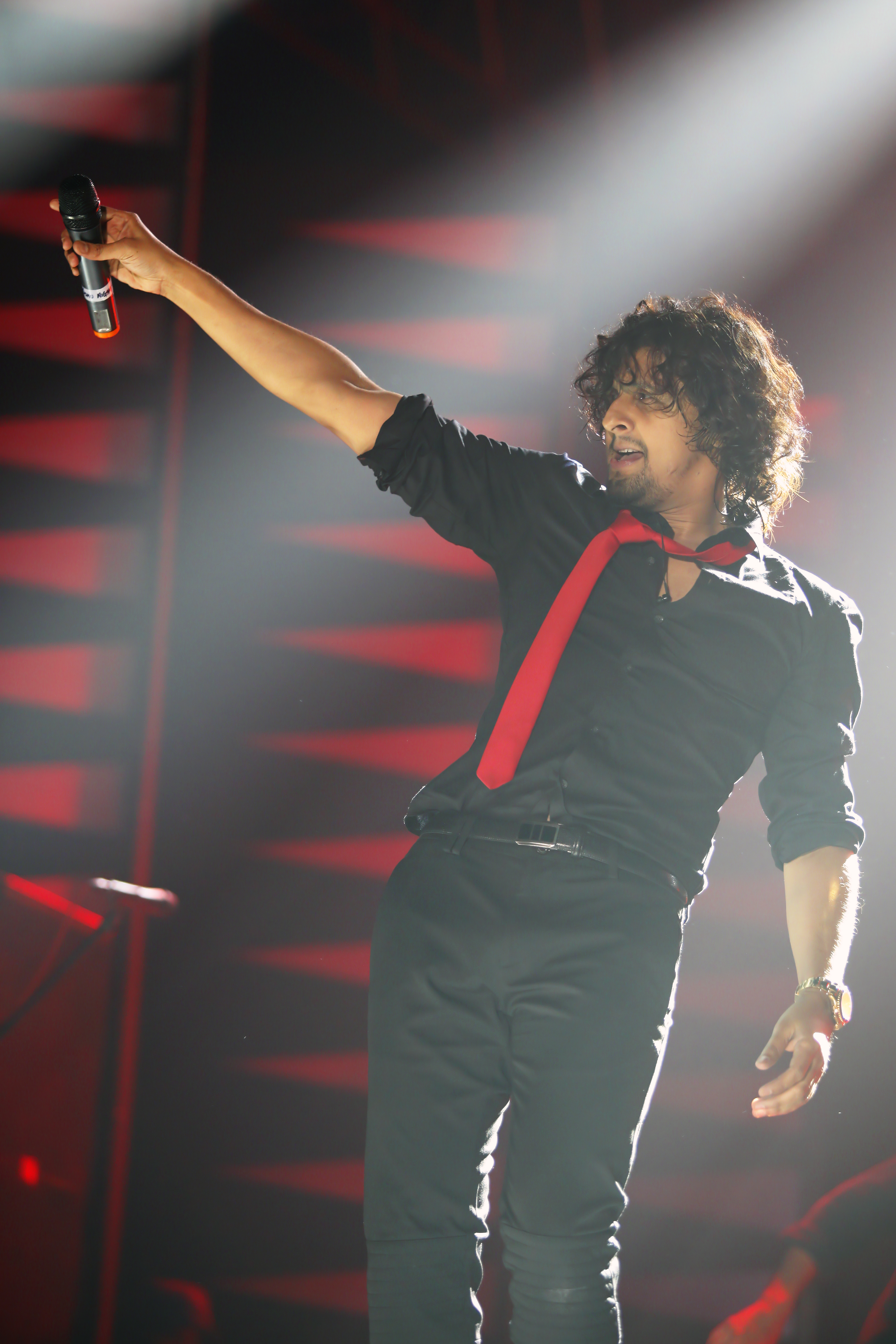 Tri Nation Mega Concert : Sonu Nigam